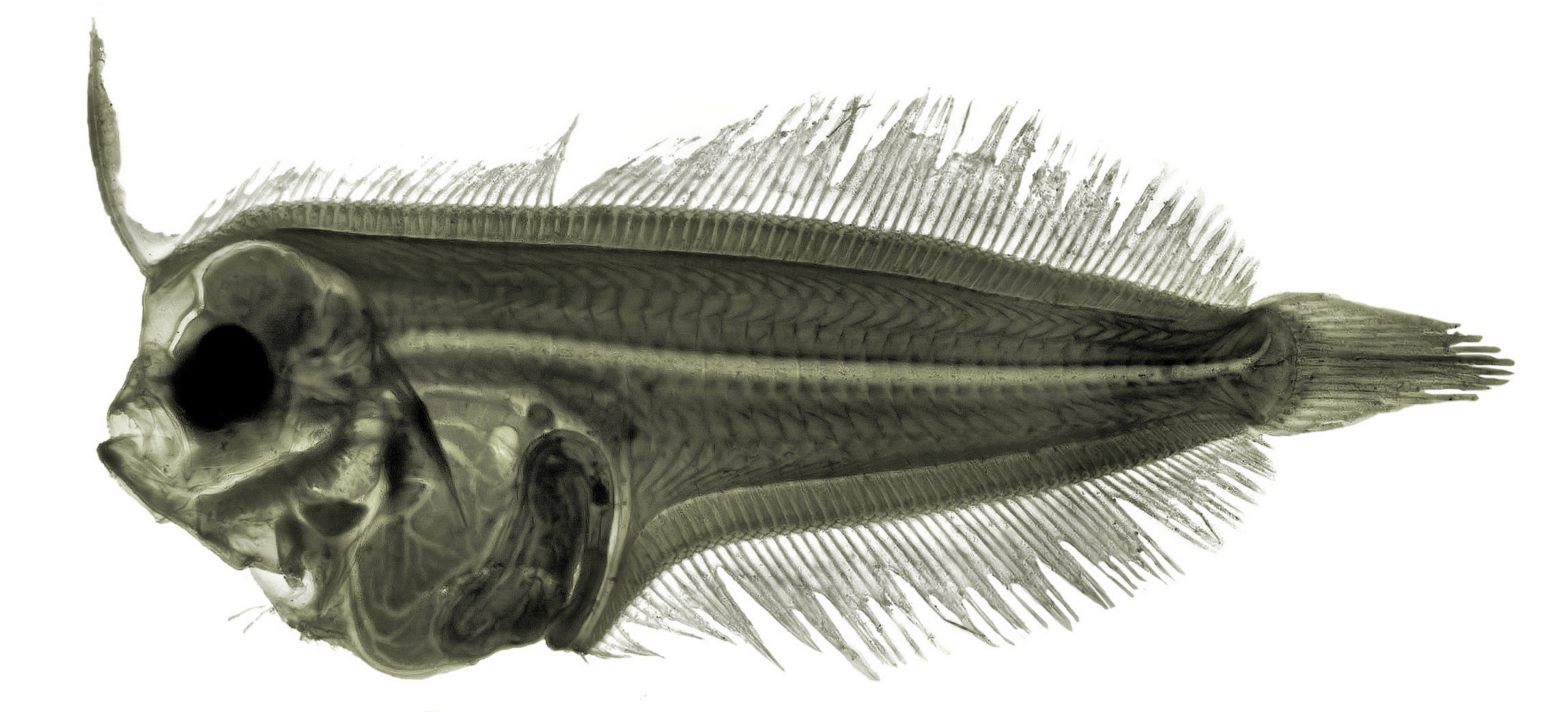 A larva of a Scaldfish from the Belgian part the Southern North Sea.The large fin ray above the head is a diagnostic characteristic.Size: ~9 mm.